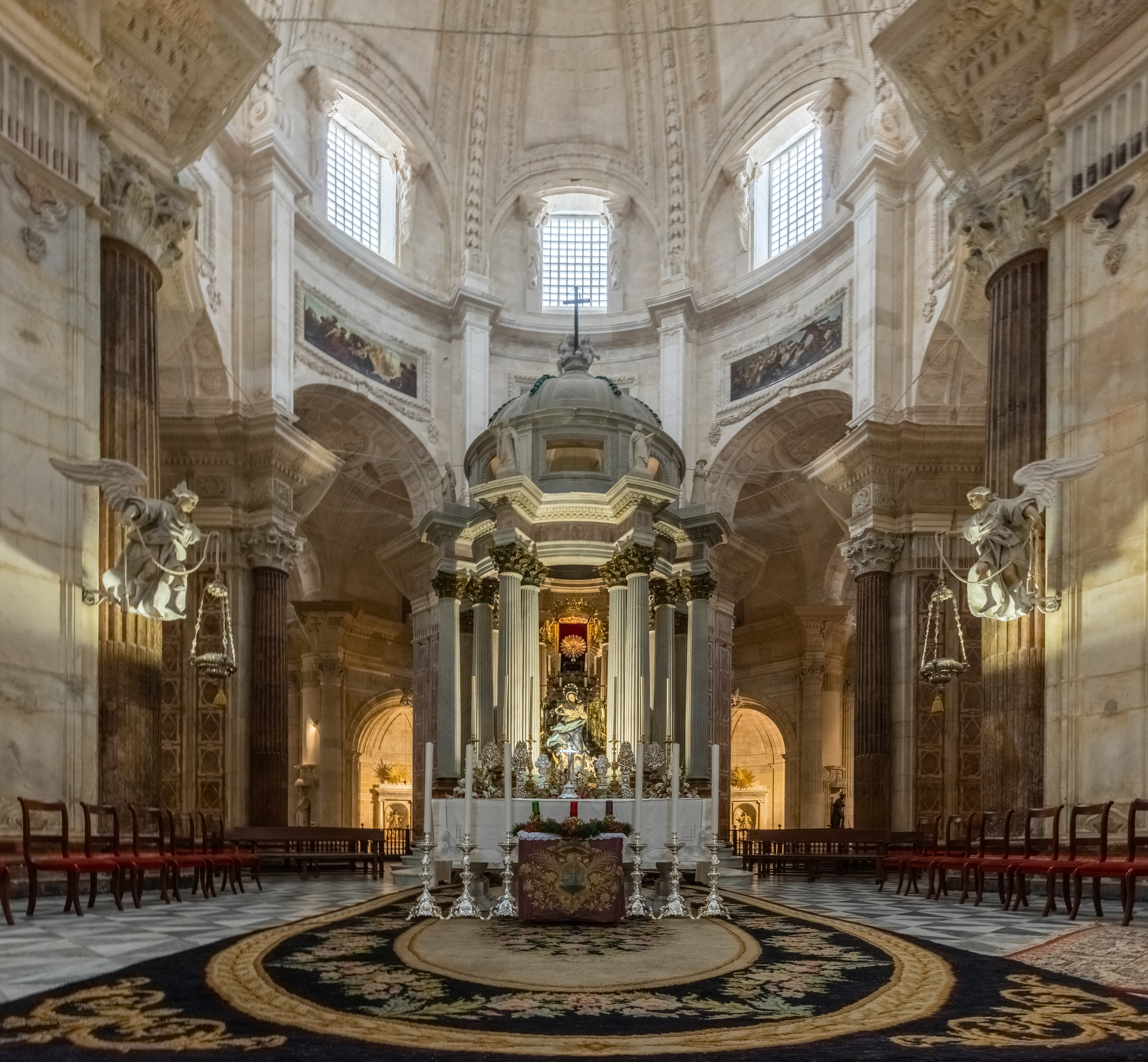 Cathedral, Cádiz, Spain